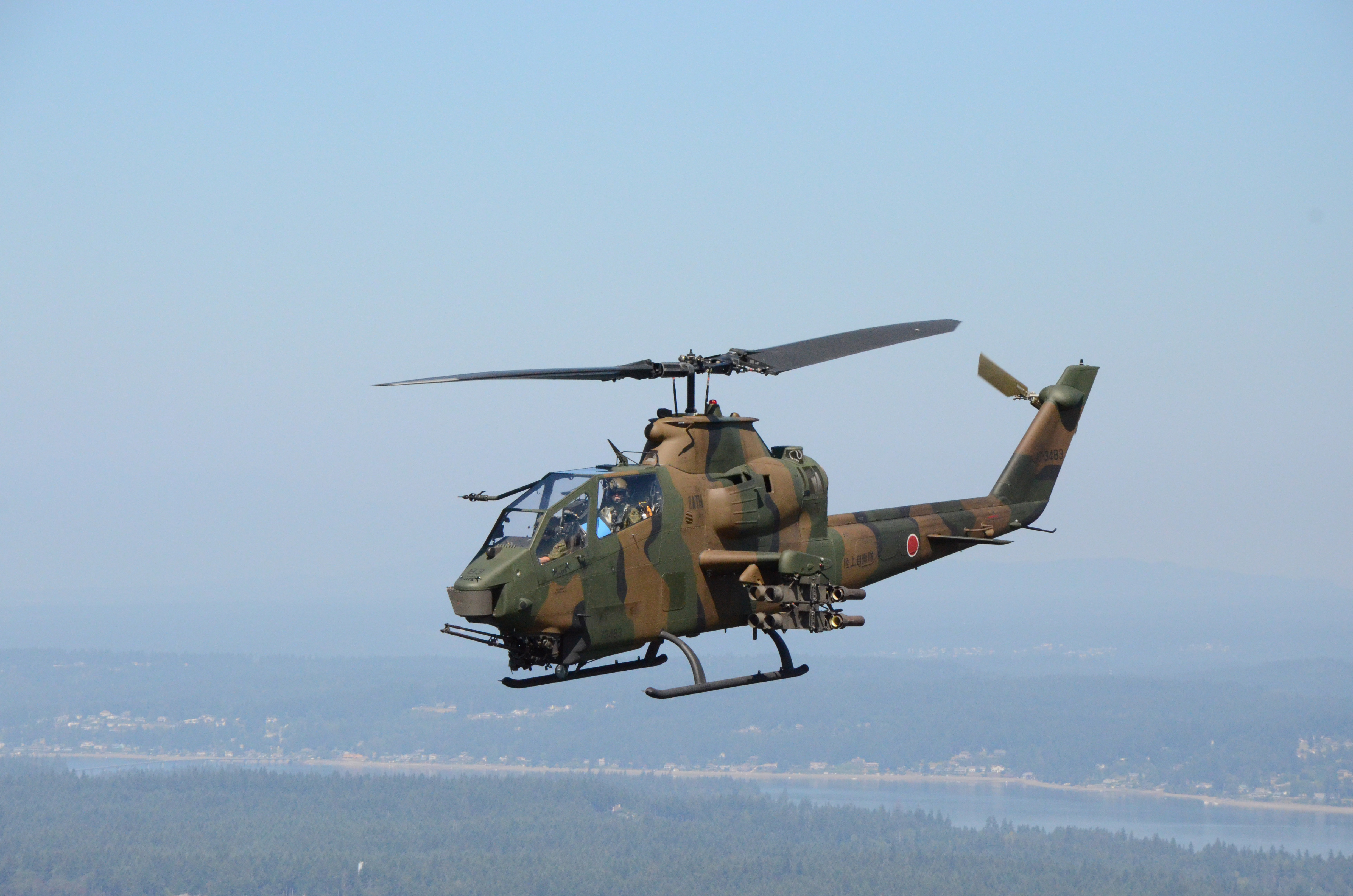 Members of the Japan Self-Defense Forces fly their AH-1 Cobra from the Port of Tacoma to Gray Army Airfield, located at Joint Base Lewis-McChord, to fuel up before being escorted to the Yakima Training Center, Wash. on Aug. 26, 2014. Soldiers from the 66th Theater Aviation Command escorted members of the JSDF to YTC to conduct training with their three AH-1 Cobra gunships and one OH-6 Cayuse light observation helicopter. (U.S. Army Photo by PFC Brianne Patterson)